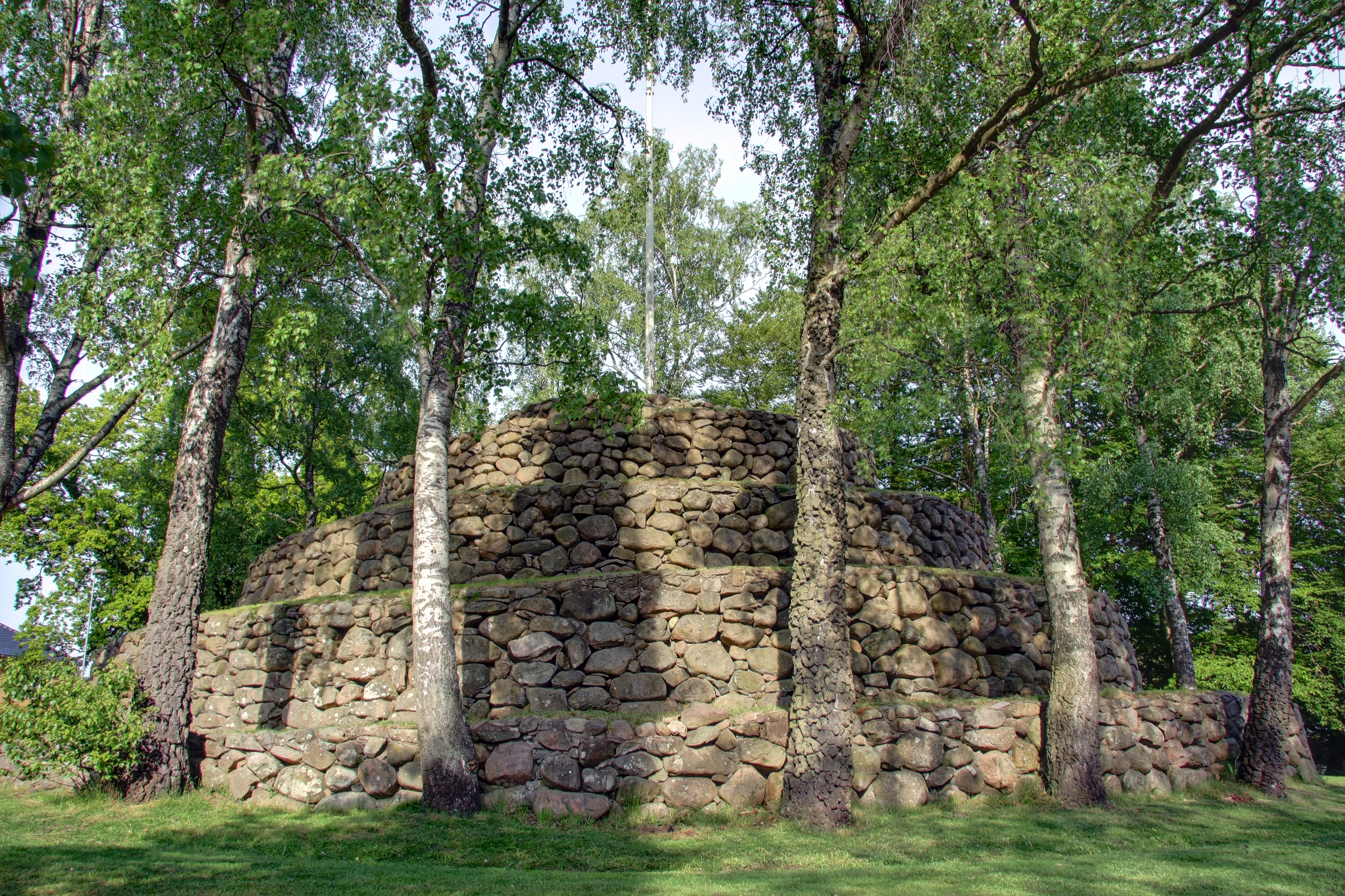 Stenberget in Eslöv, Sweden